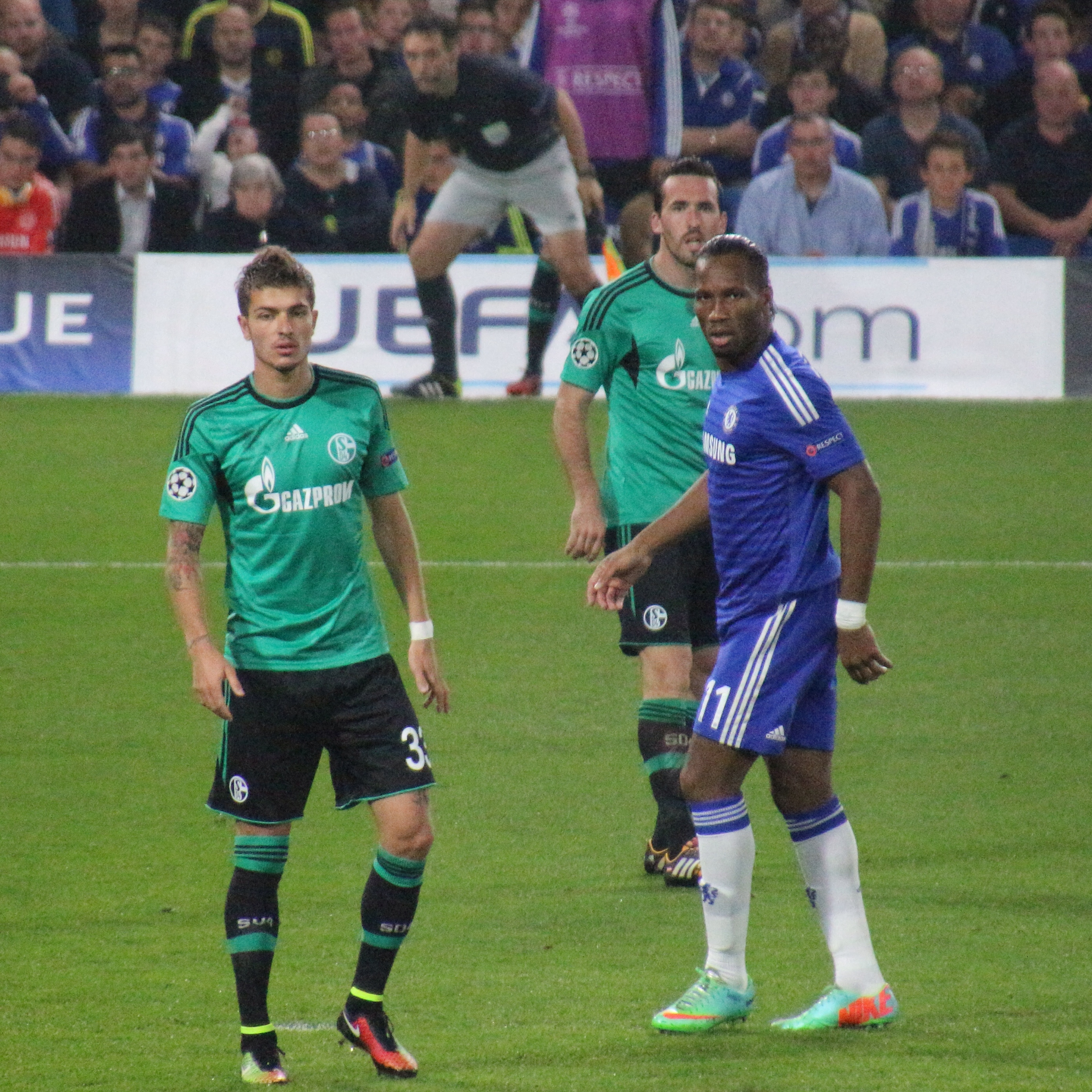 Champions League match between Chelsea and FC Schalke 04 at Stamford Bridge on 17 September 2014.